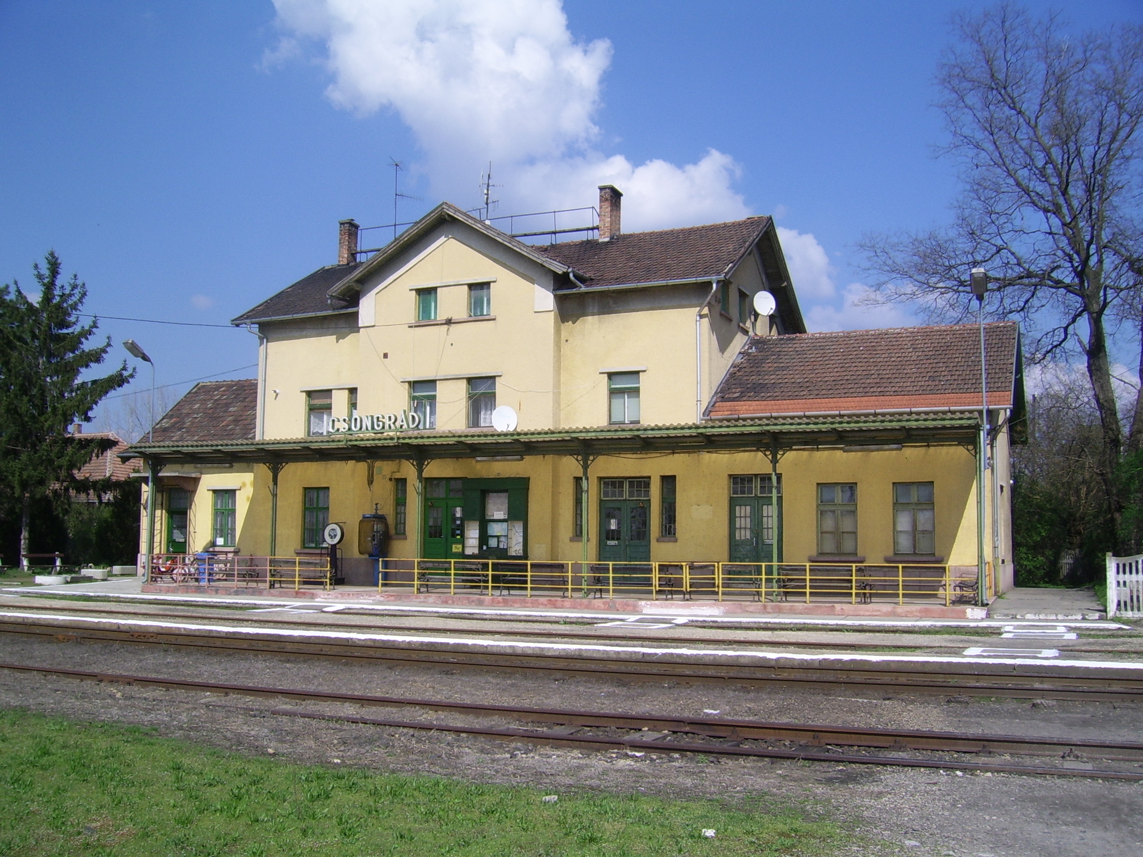 Csongrád railway station, Hungary